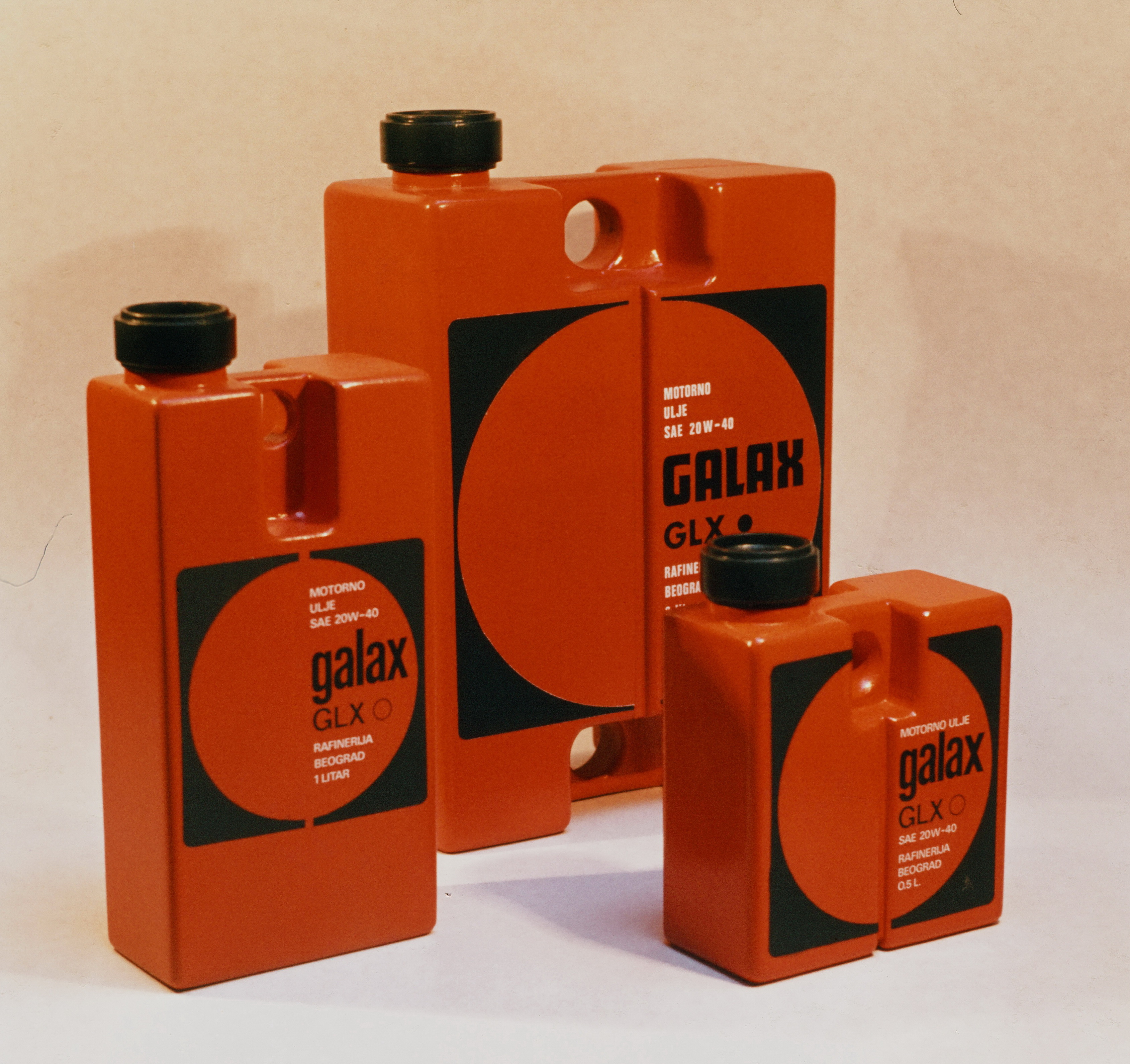 Plastic packaging designed by Gojko Varda in cooperation with the Pančevo Oil Refinery from 1978